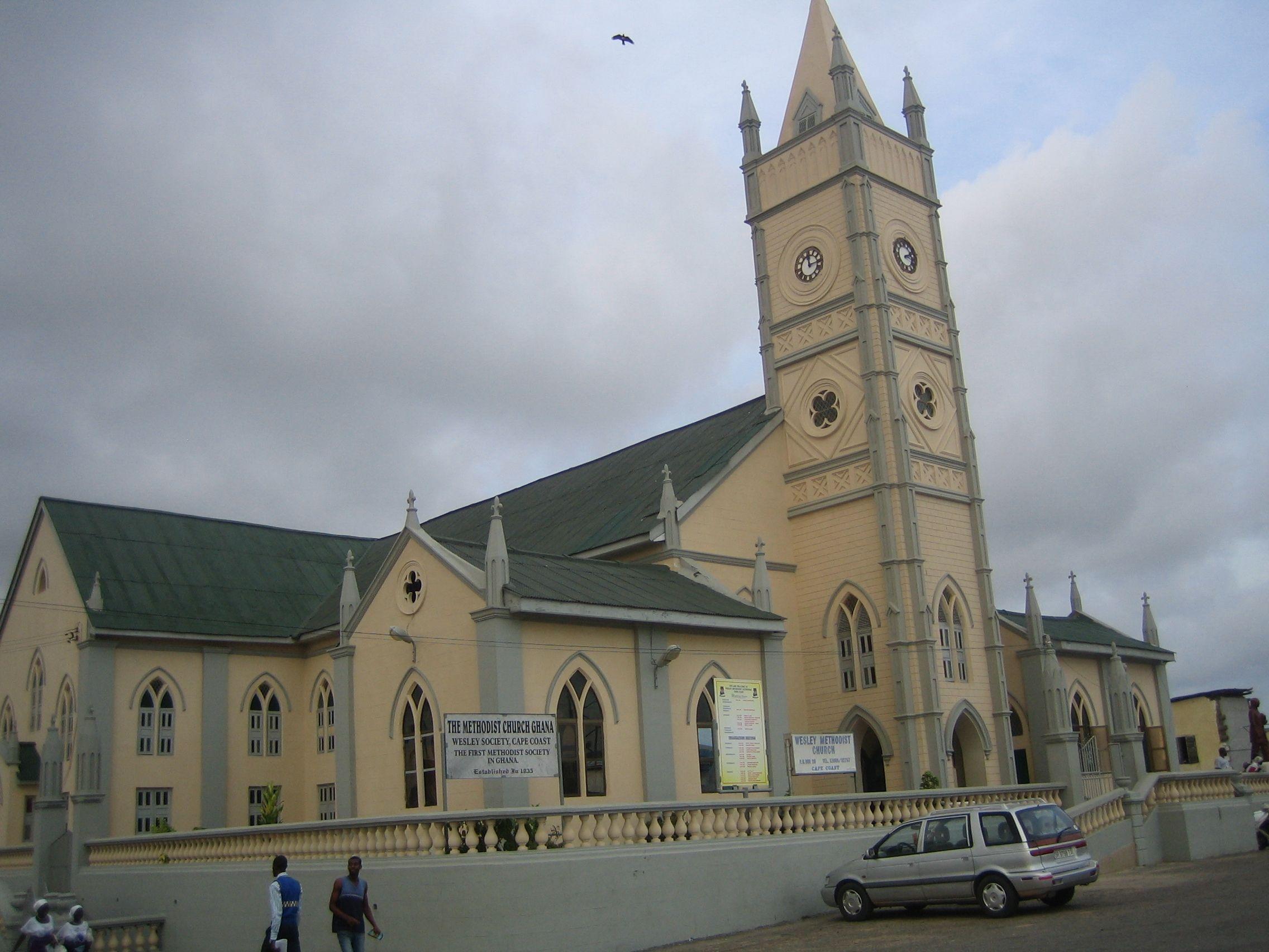 Cape Coast_Methodist Church